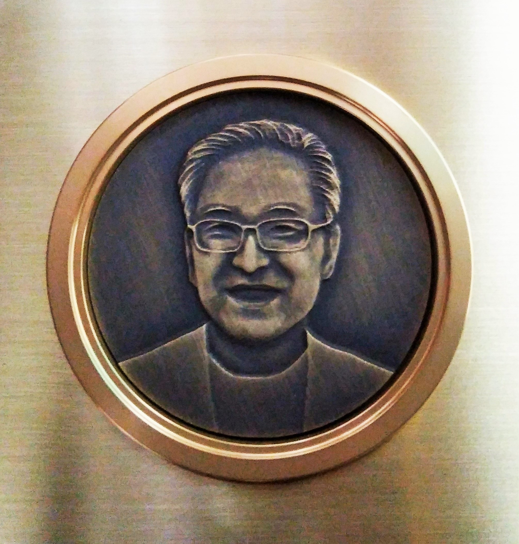 Seung-Moo Ha(Theologian, Pastor, Poet)